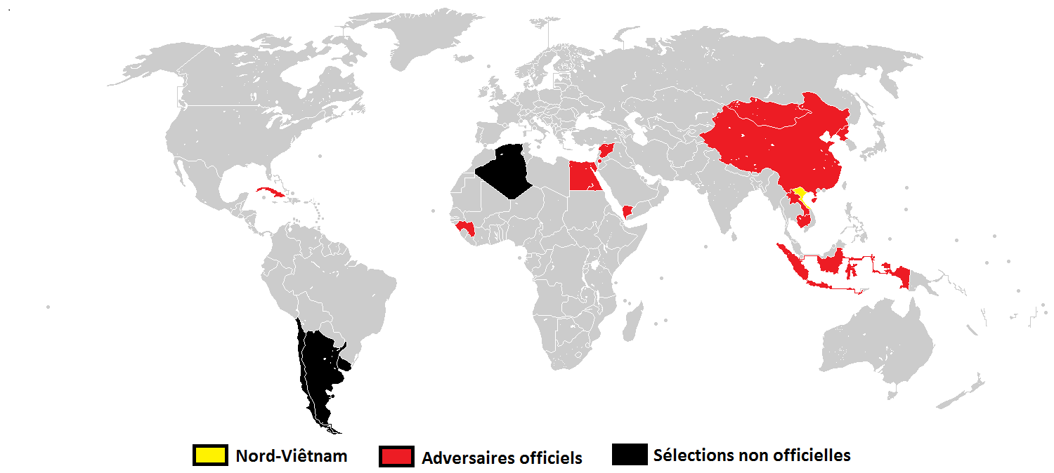 Opponents from 1956 to 1970 for North Vietnam